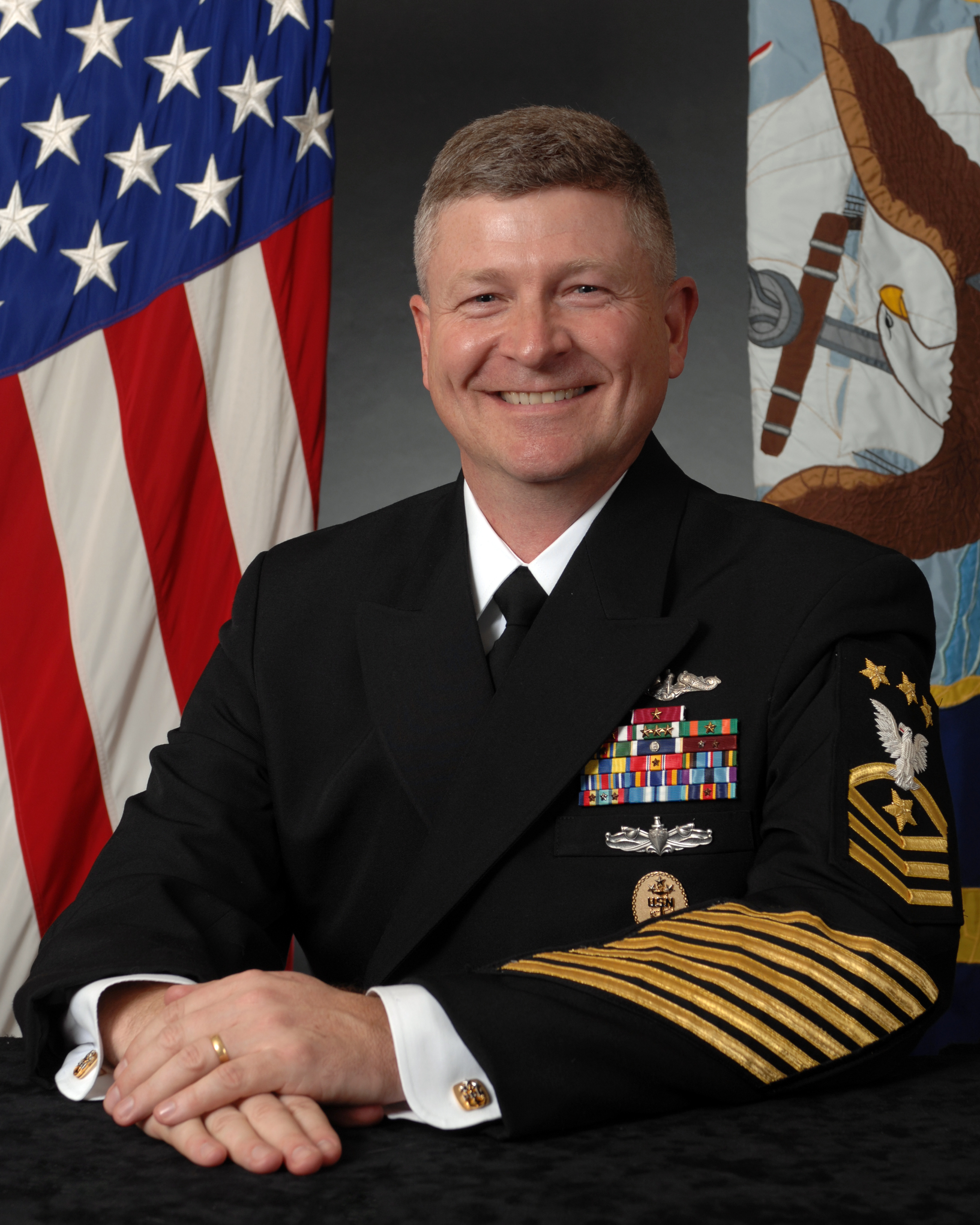 12th MCPON of the Navy